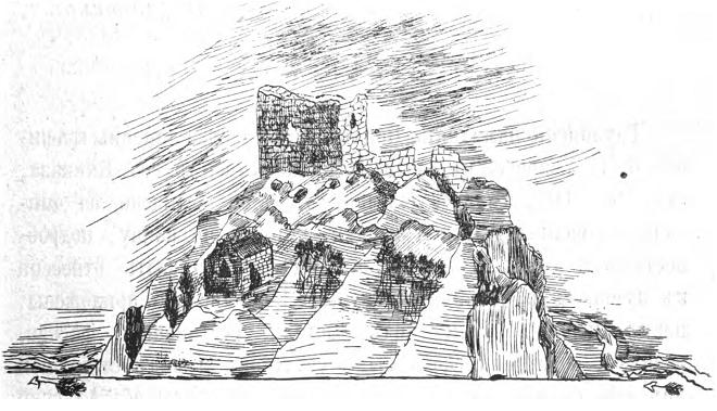 A sketch of the medieval Georgian fortress of Jak-su in the Potskhovi vally